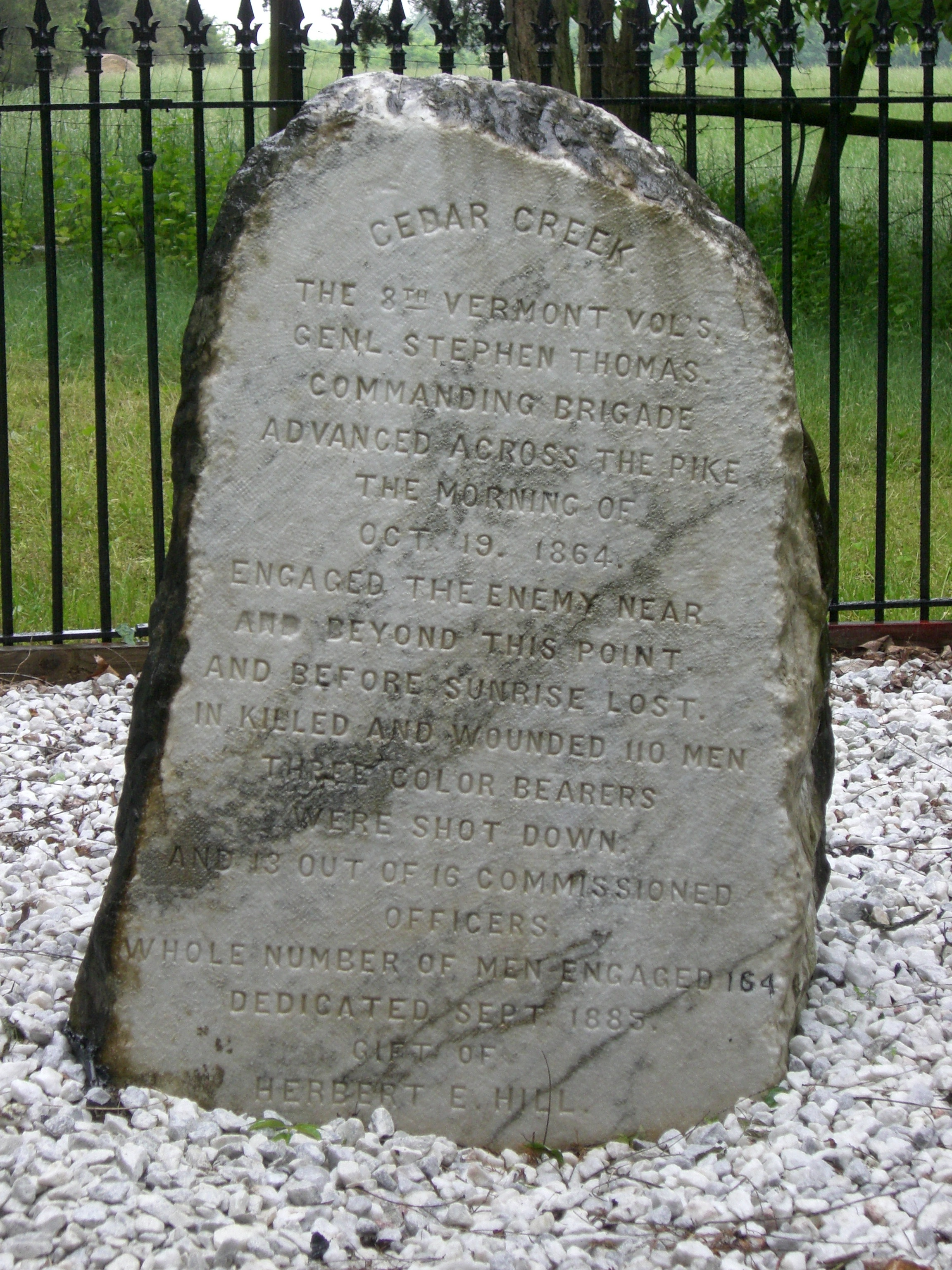 Marble monument honoring the 8th Vermont Infantry Regiment at the Battle of Cedar Creek; located near Strasburg, Virginia